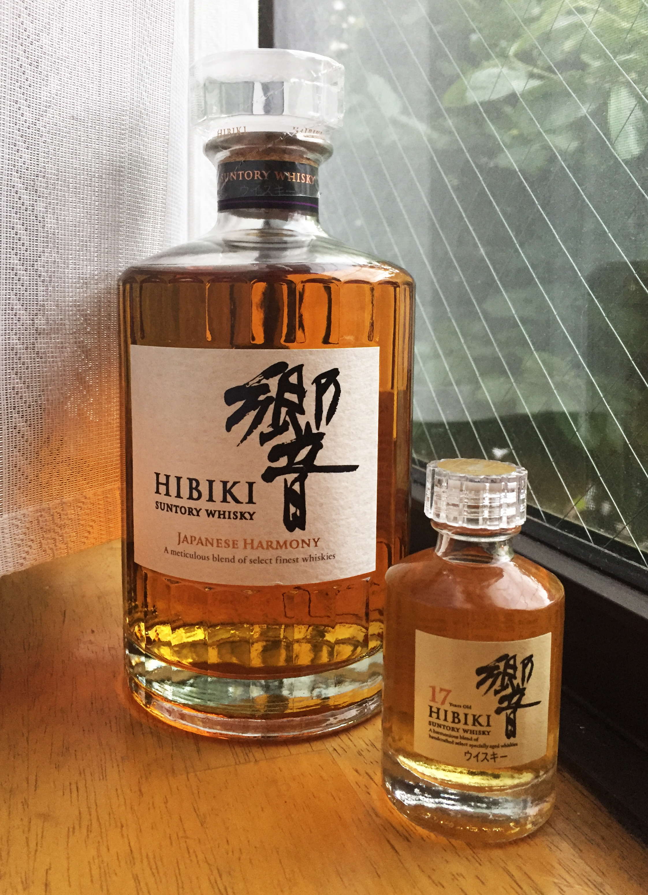 Hibiki the premium blended whisky from Japanese distiller Suntory